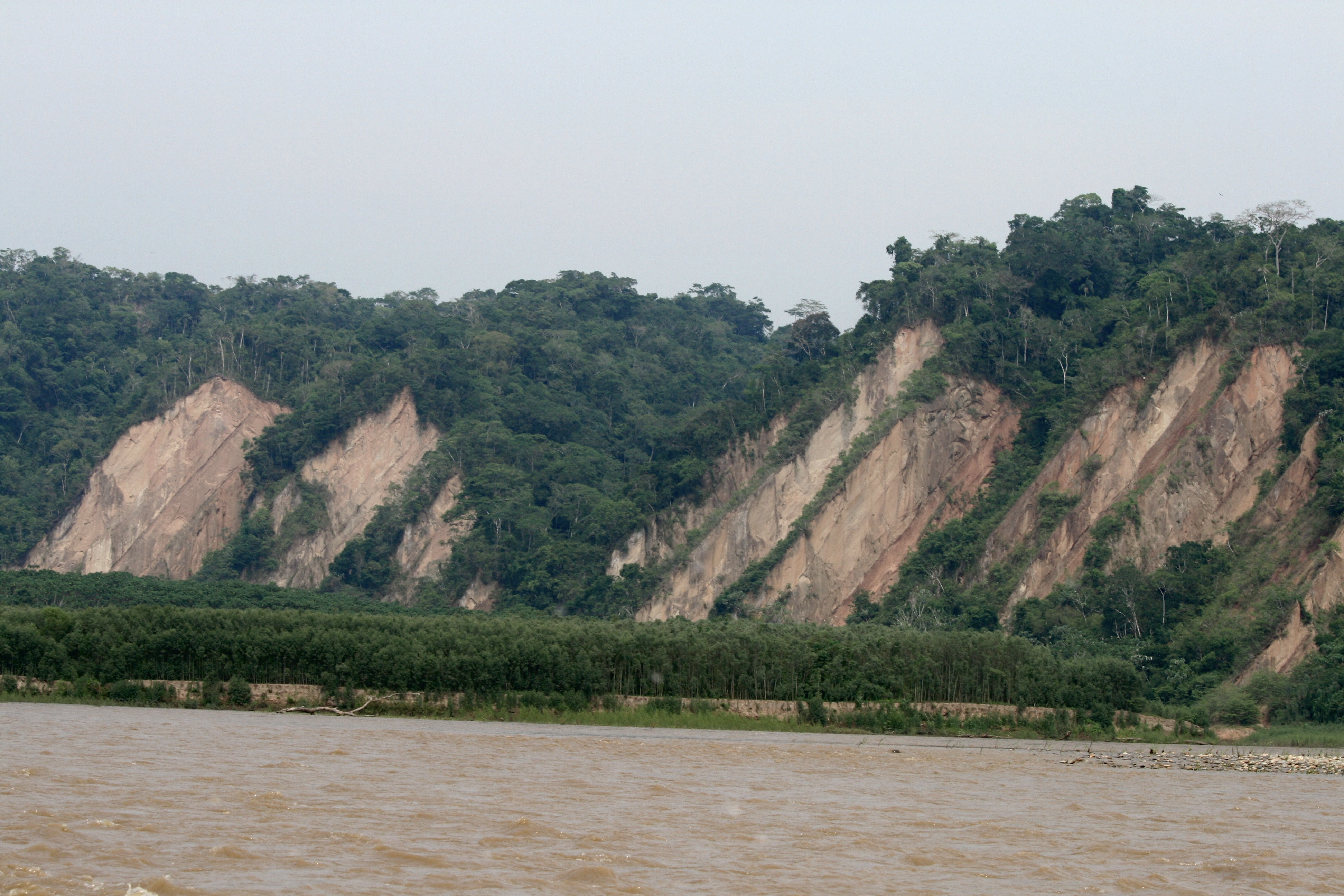 Cliffs along Tuichi River, Madidi National Park, Bolivia. Photographed on 26 November 2008.